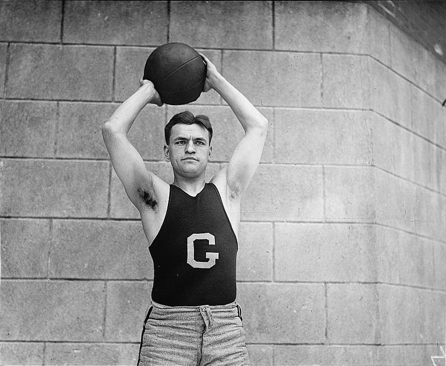 Photograph showing Bill Dudack, Georgetown University basketball player.